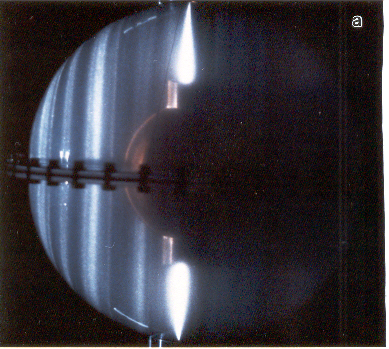 Analog experiment of thermal convection in a rotating sphere - thèse de doctorat Paris 6 de Philippe Cardin - mai 1992